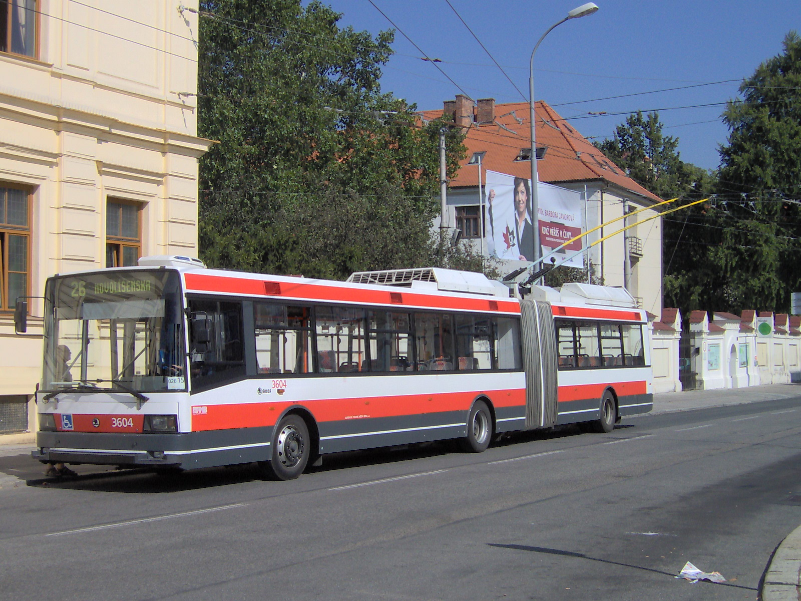 Škoda 22Tr trolleybus in Brno